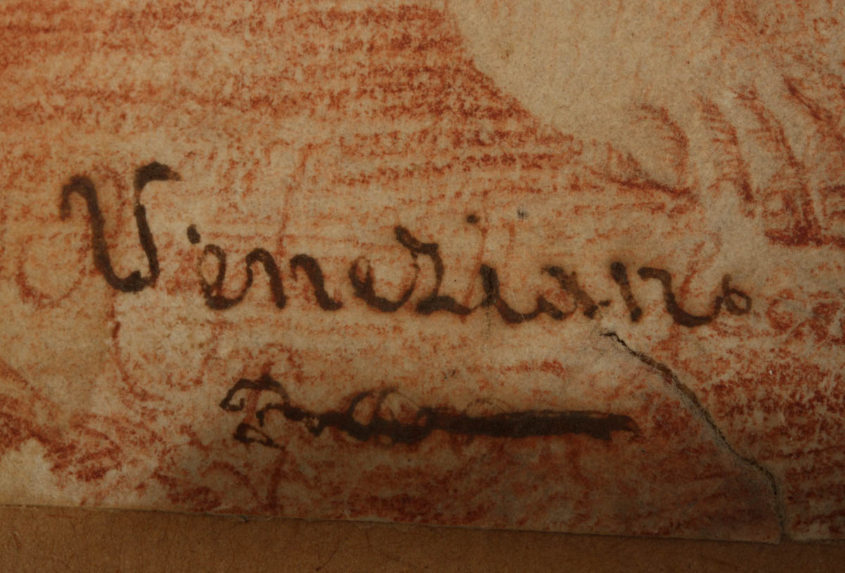 Signature. Raphello Fecit, the signature "Raphaello" was used by Raphael himself. later attributions on works are usually stated "Raphael" or "Rafaello"